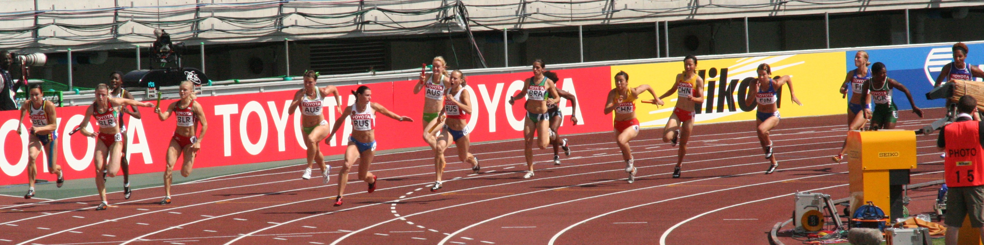 World Athletics Championships 2007 in Osaka - Scene from first heat of the women*s 4*100 relay (1st round): Kim Gevaert, Aksana Drahun, Elodie Ouédraogo, Alena Neumiarzhitskaya, Fiona Cullen, Yevgeniya Polyakova, Crystal Attenborough, Yuliya Gushchina, Luciana dos Santos, Thaissa Presti, Qin Wangping, Jiang Lan, Johanna Manninen, Ilona Ranta, Ene Franca Idoko, Christine Arron